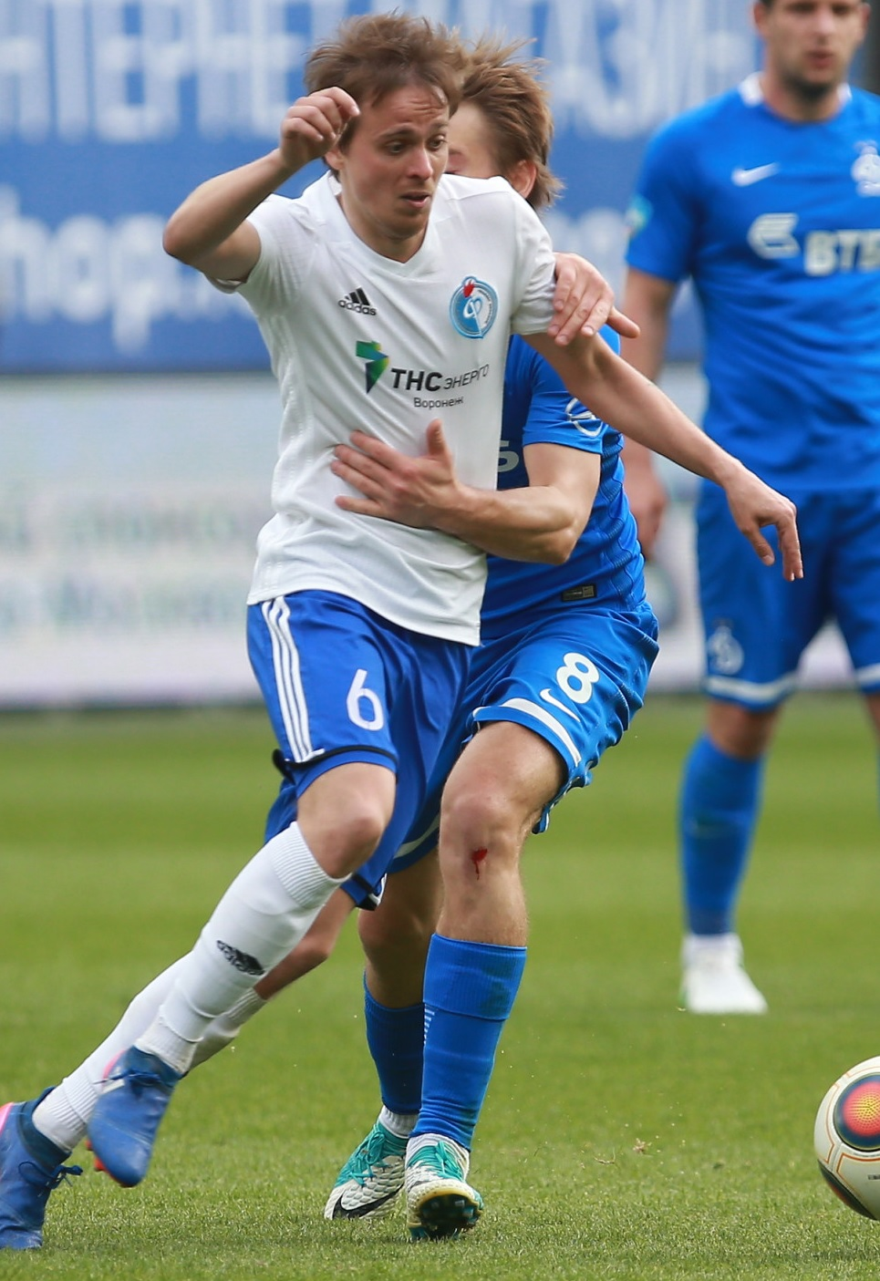 Dmitri Kayumov with FC Fakel Voronezh in a game against FC Dynamo Moscow.